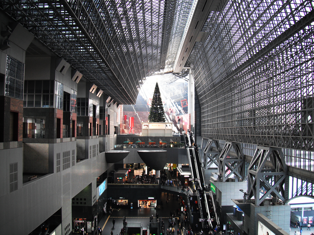 Kyoto Station taken from Karasuma Square.